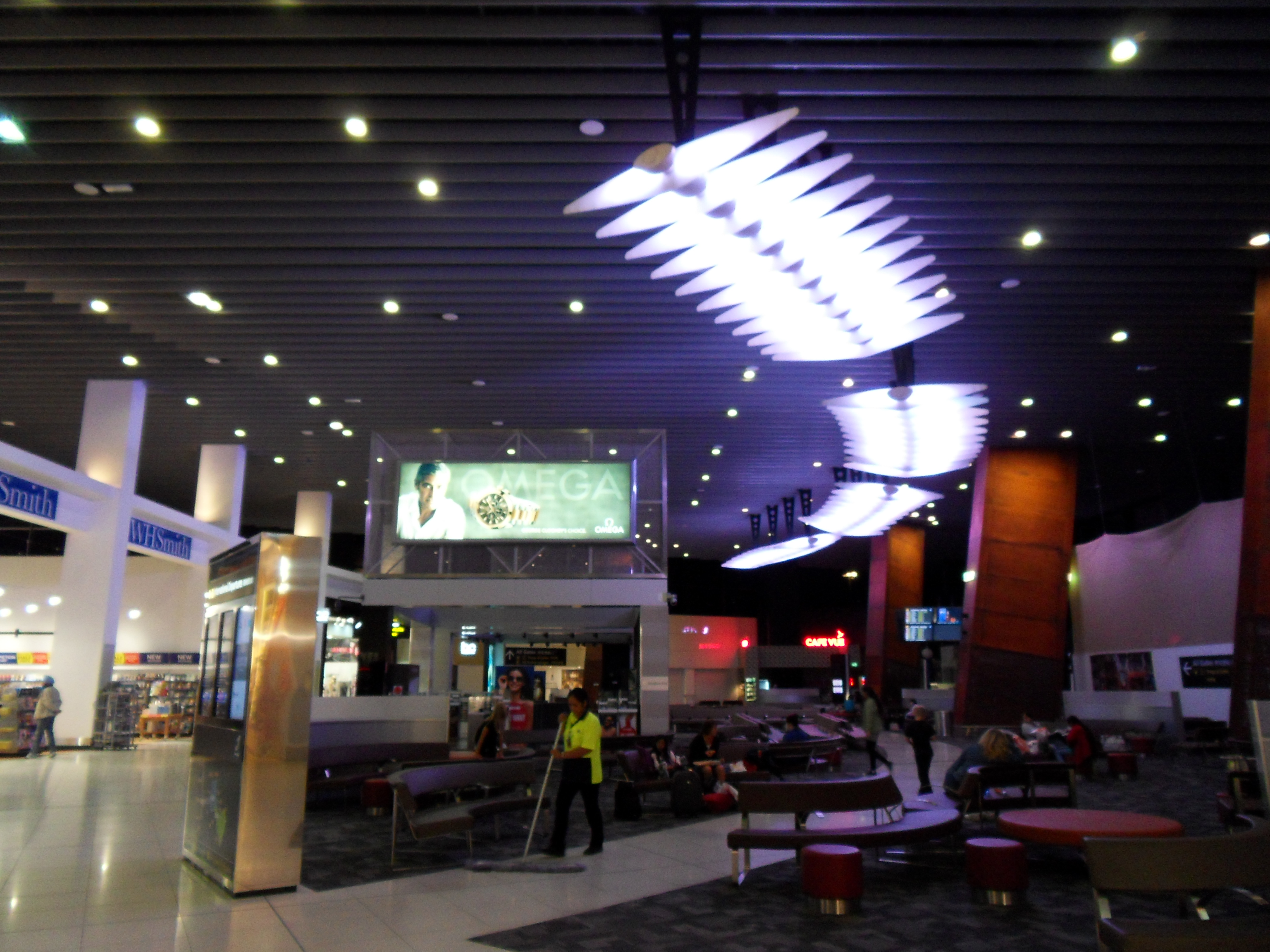 Melbourne Airport International Terminal